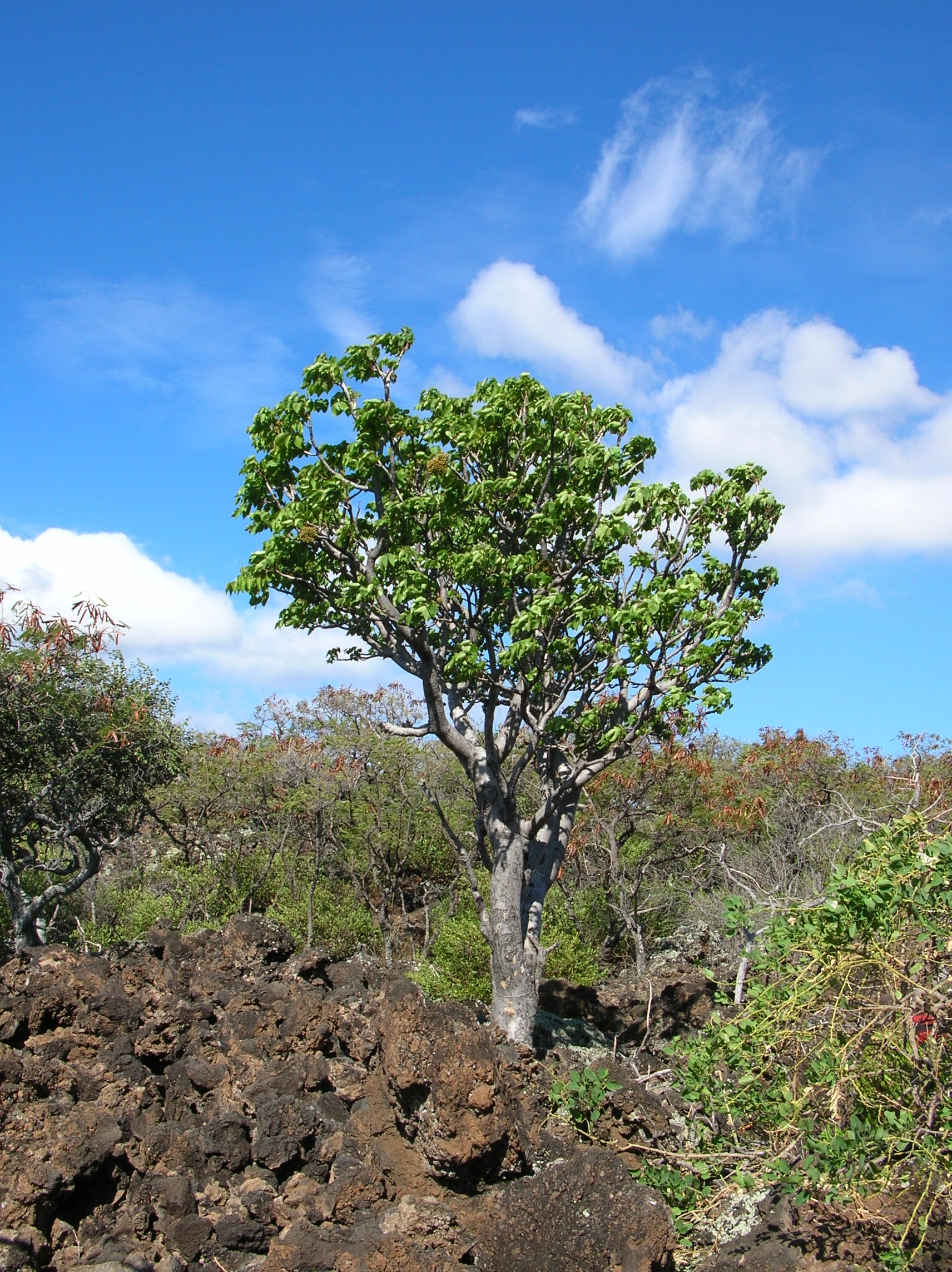 Reynoldsia sandwicensis (habit). Location: Maui, LaPerouse